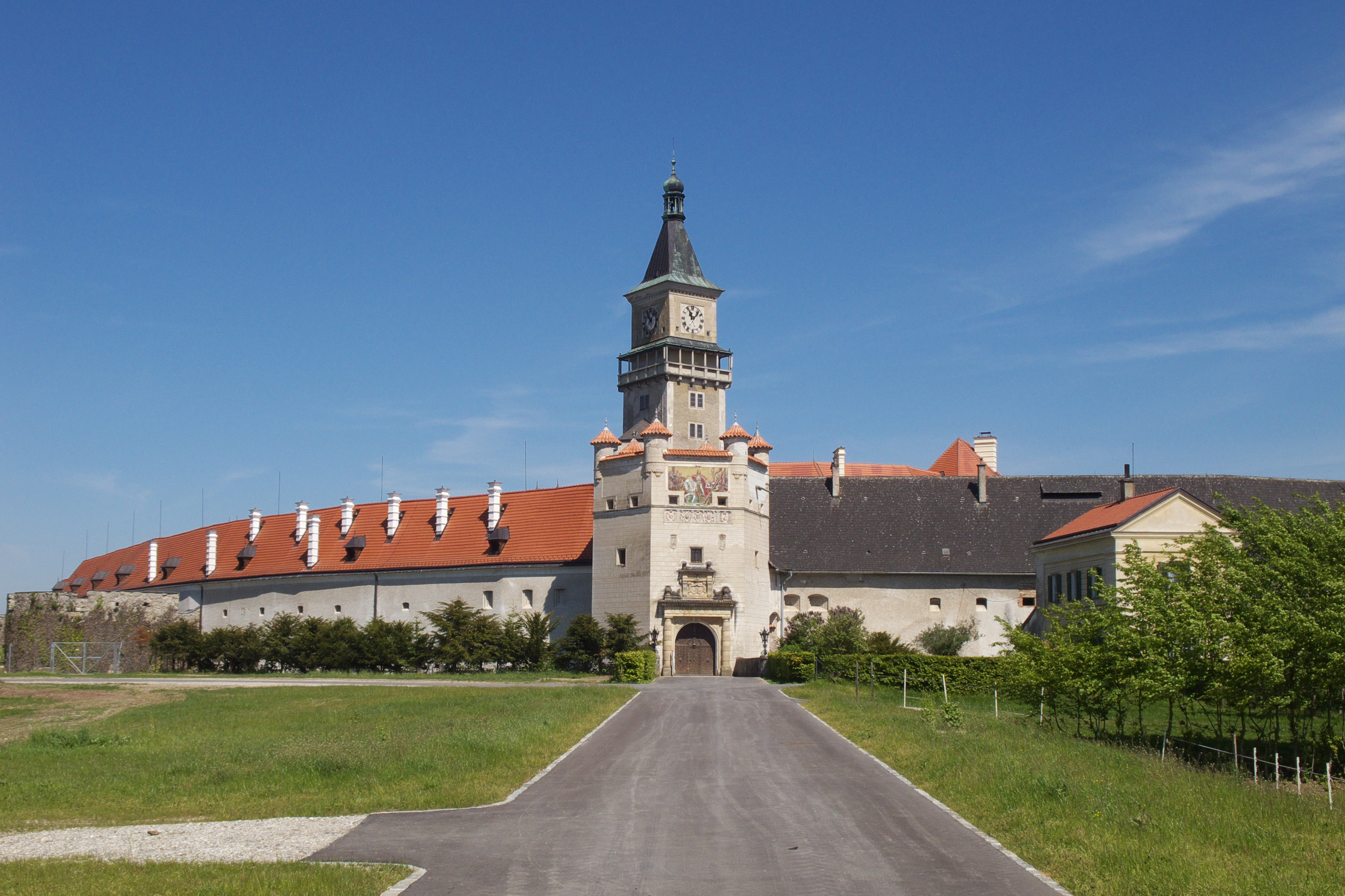 Wallsee castle, view from the main entrance.